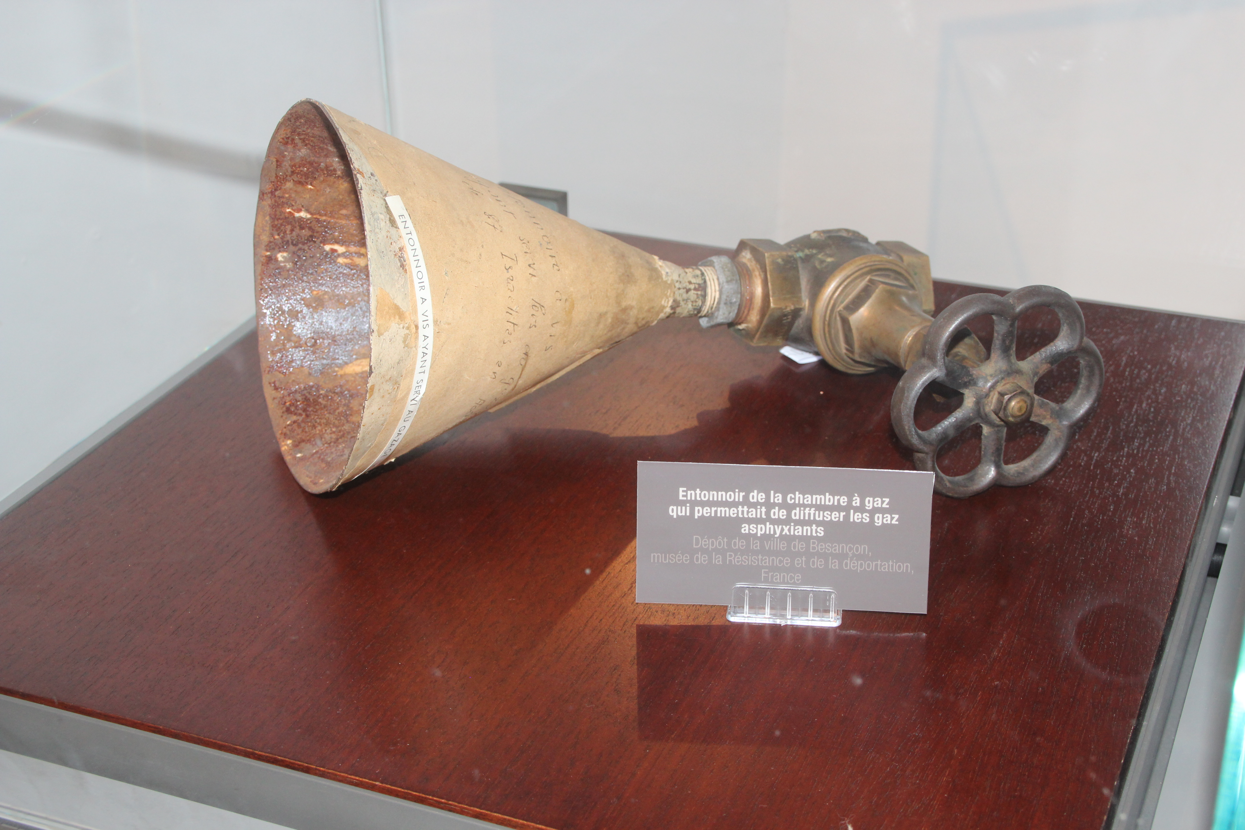 Natzweiler-Struthof concentration camp in Natzwiller, France. Funnel of the gas chamber used to spread the asphyxiating gases. Object location48° 27′ 20.02″ N, 7° 15′ 14.58″ E .